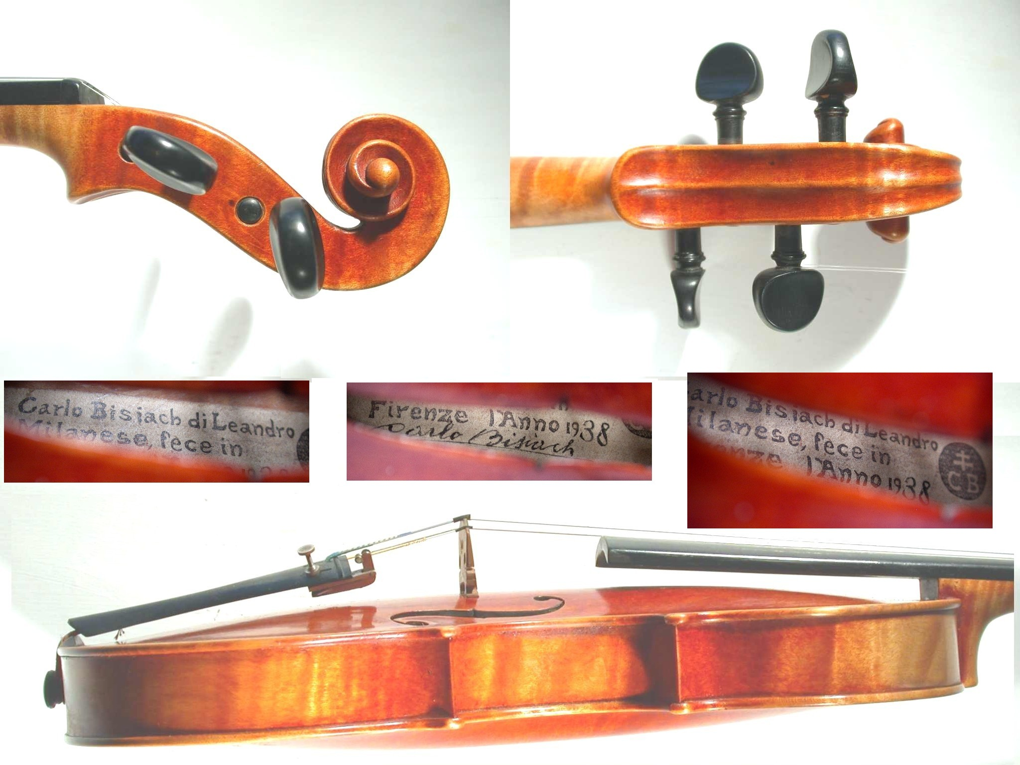 Carlo Bisiach violin 1938 (scroll,label and side-view)